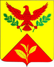 Coat of arms of Shaumian, Tuapse Raion, Krasnodar Krai, Russia.